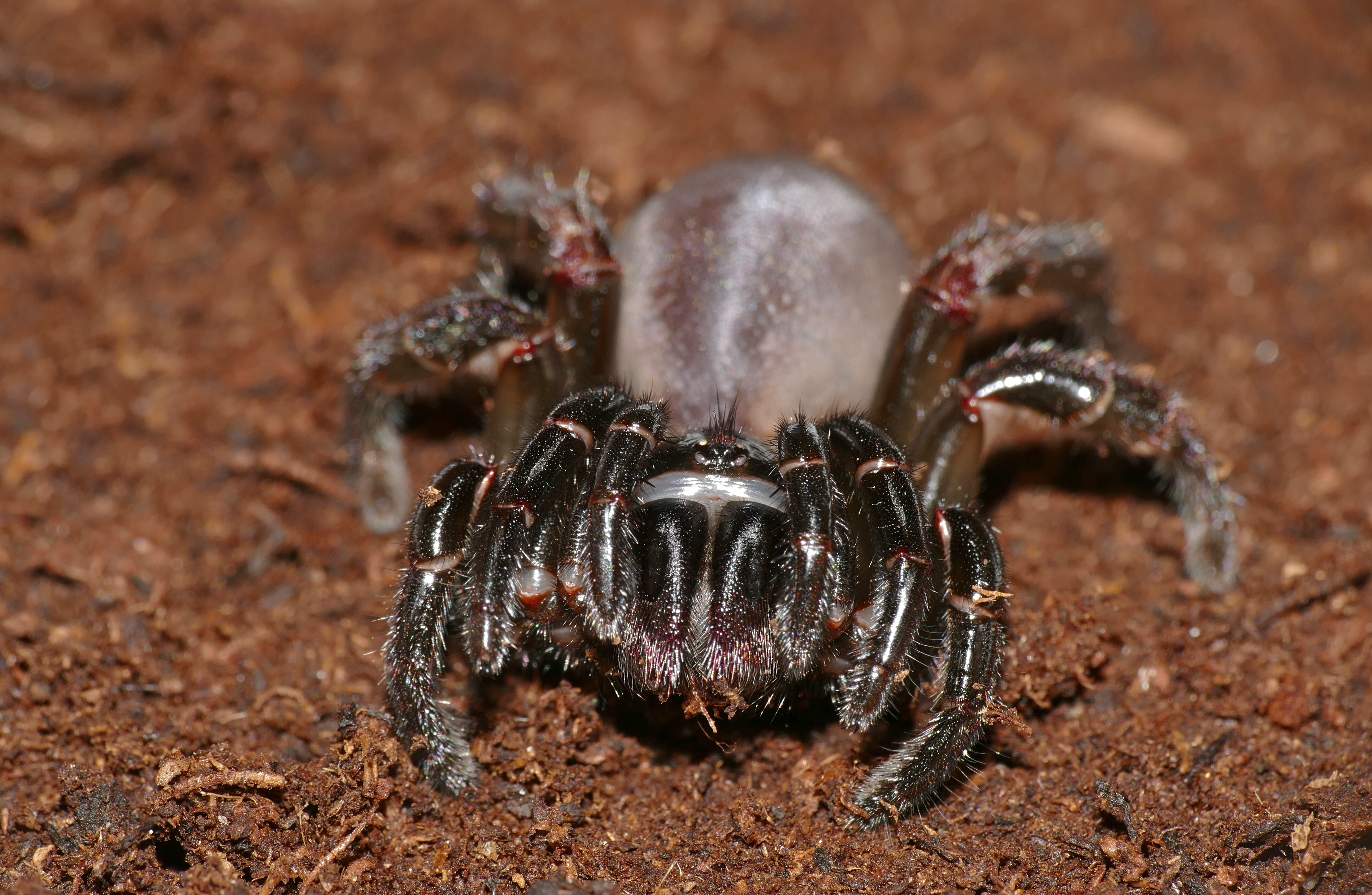 Corse, FRANCE (Captive specimen)